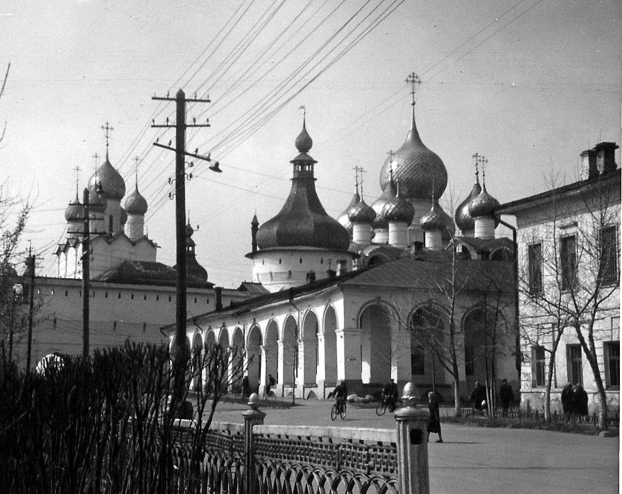 The Kremlin of Rostov, and the adjacent monasteries.